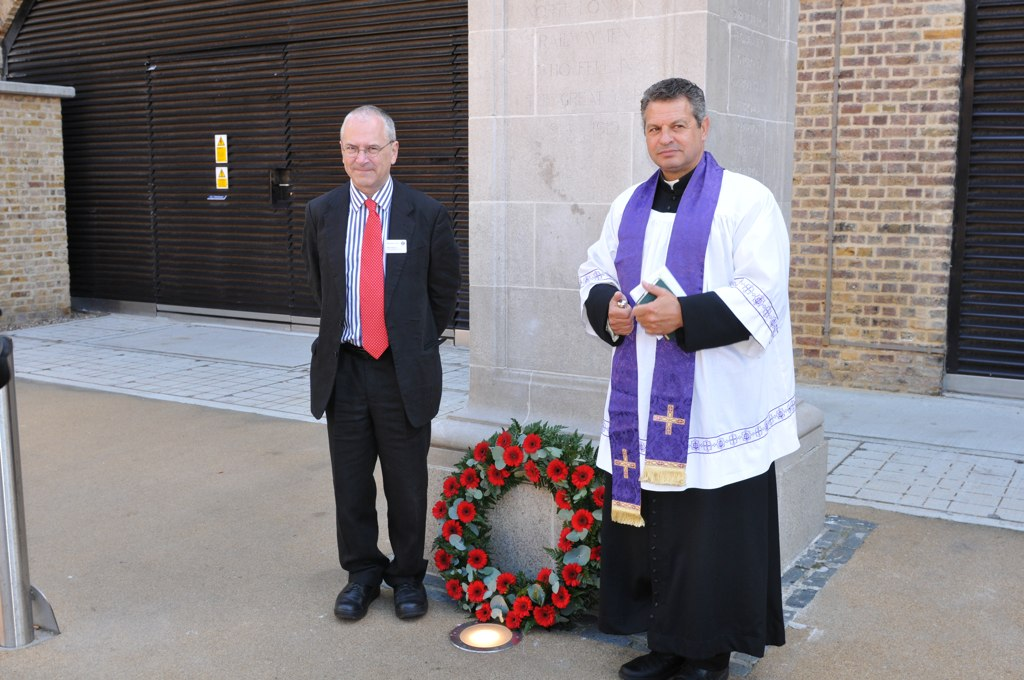 Transport for London’s Commissioner, Peter Hendy and Revd James Westcott of St Chad’s Church